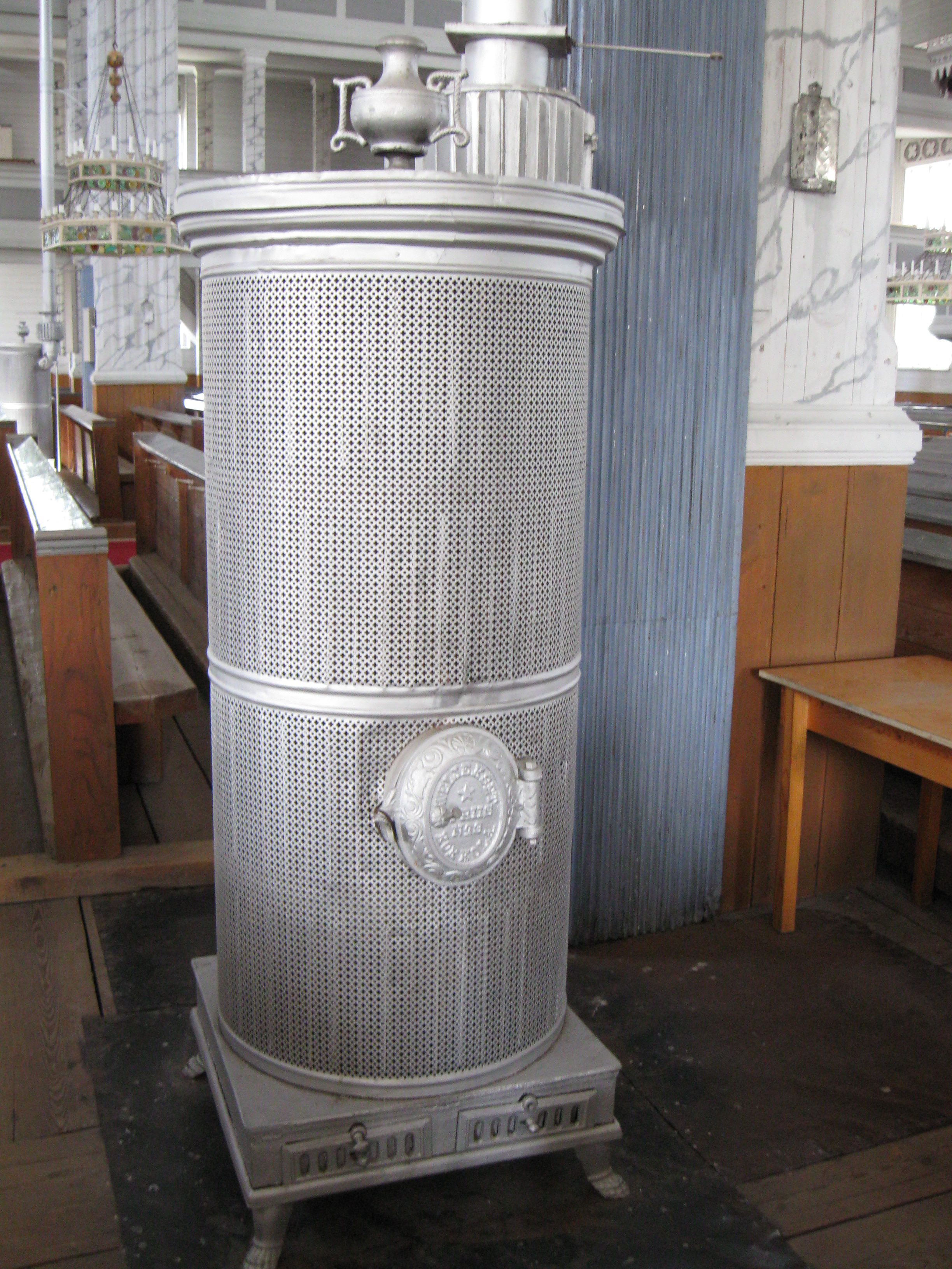 One of the many old stoves in the church of Kerimäki, Finland.